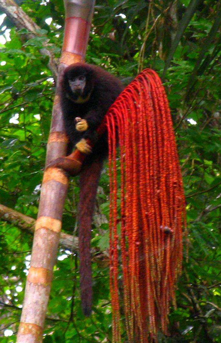 Yellow-handed titi monkey (Callicebus lucifer) in Tapir Lodge, Ecuador.